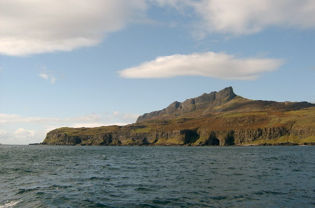 Isle of Eigg. Heading out to sea aboard the M.V.Sheerwater, bound for the beautiful Isle of Muck.